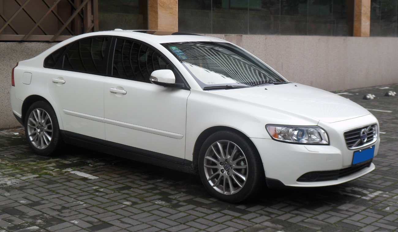 Volvo S40 M facelift photographed in Shanghai, China.